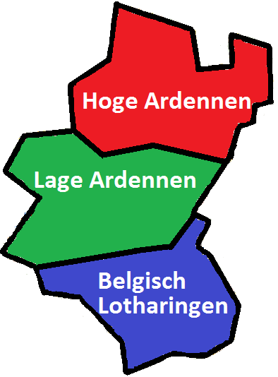 Map of Province of Luxemburg